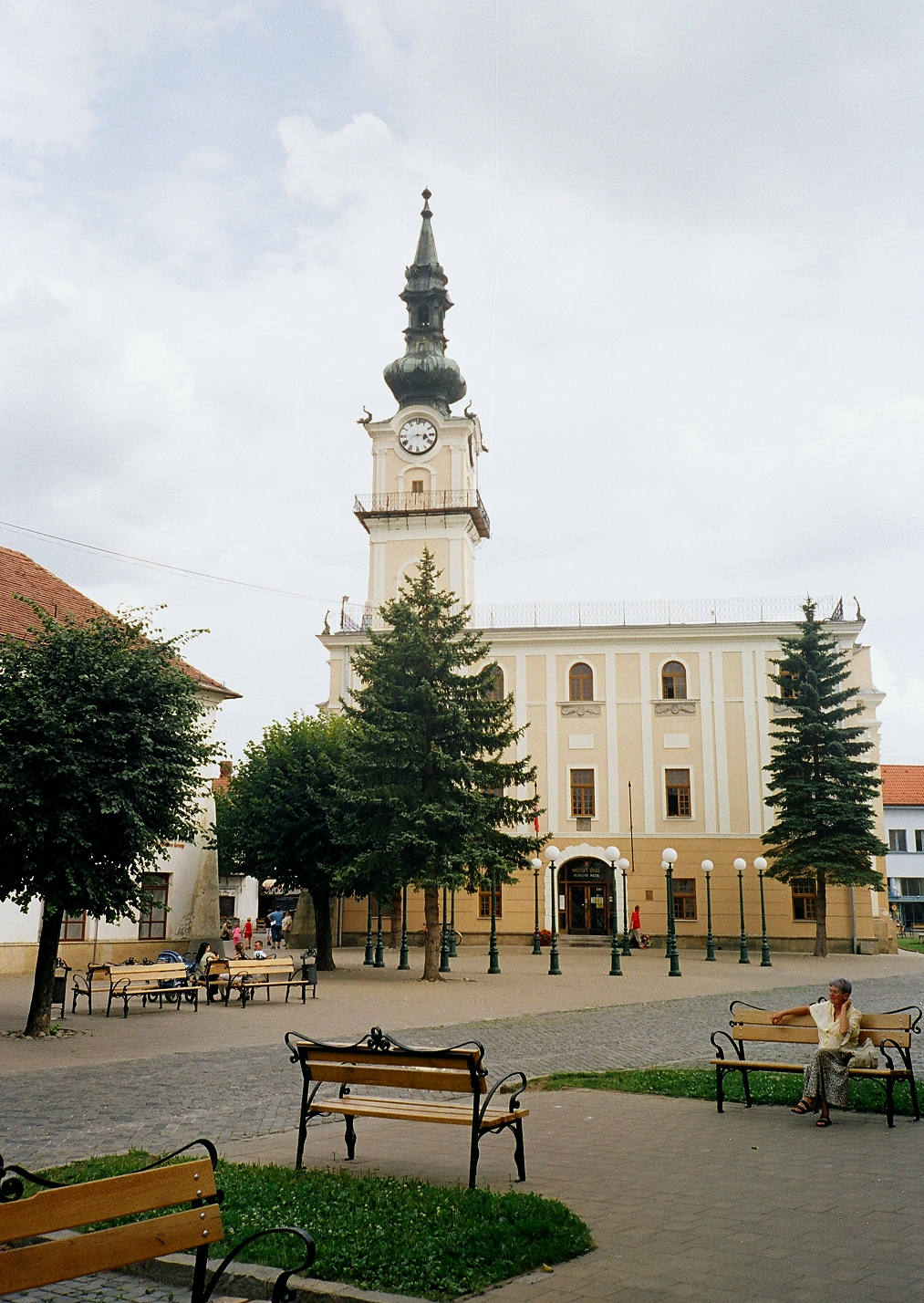 Rathaus in Kežmarok